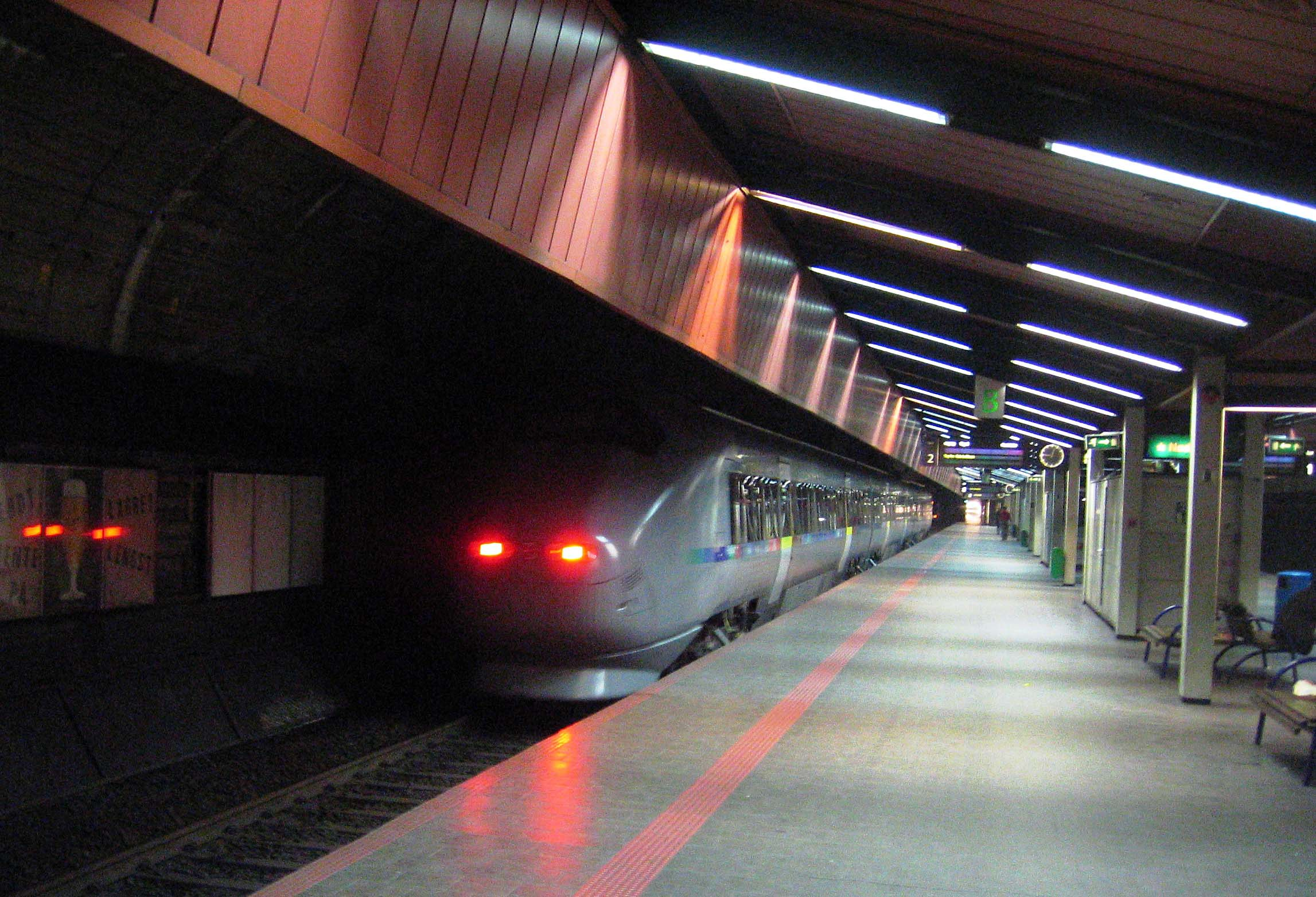 The Norwegian flight train, Oslo, National theatre station.